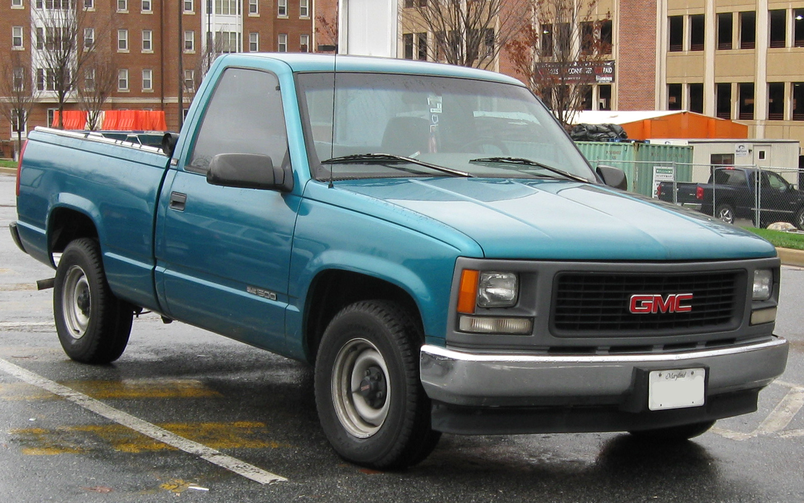 GMC C-1500 regular cab photographed in College Park, Maryland, USA.